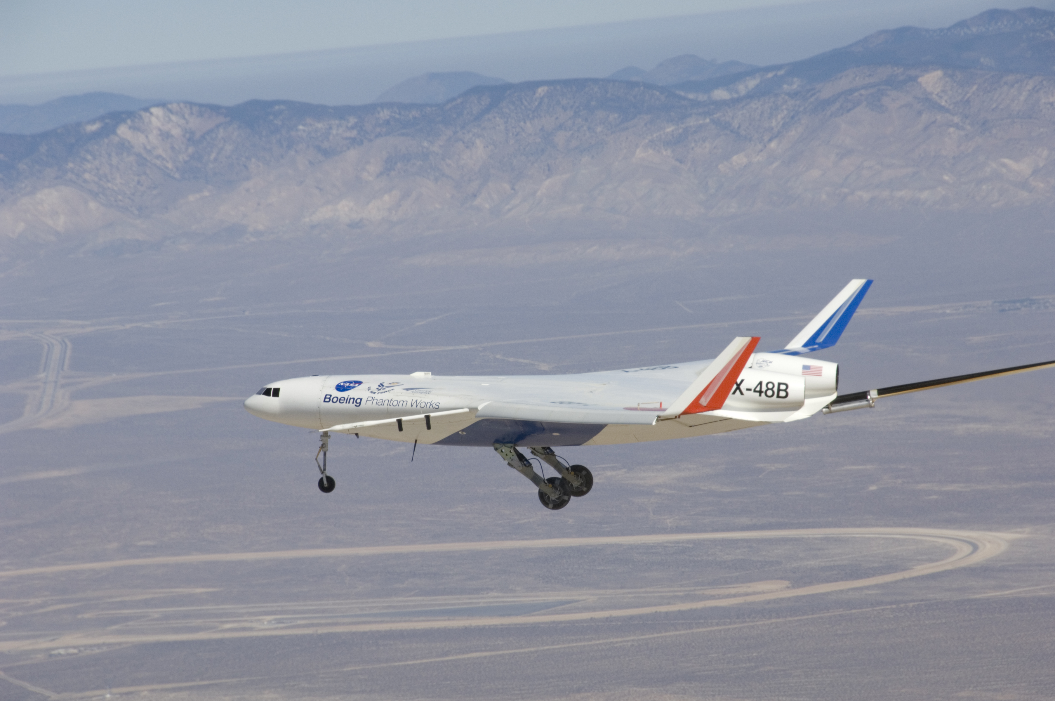 The X-48B during its first flight.